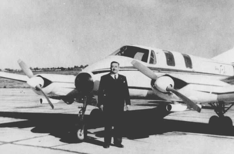 Turbay T-3 and Alfredo Turbay